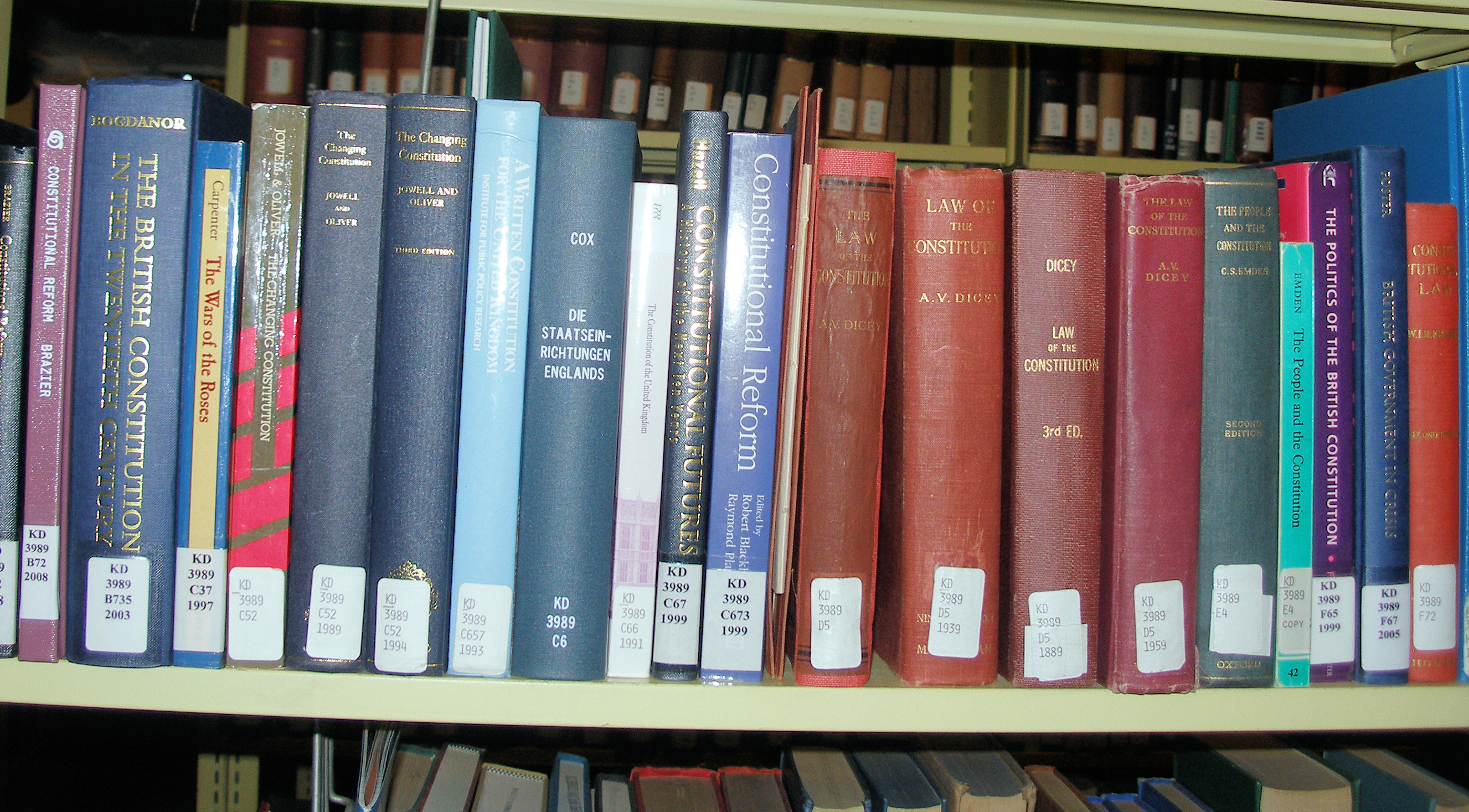 One of several shelves full of books about the constitution of the United Kingdom at the law library of UC Berkeley School of Law.